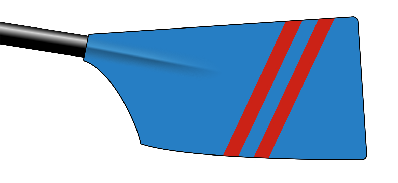 Rowing blades of Włocławskie Towarzystwo Wioślarskie (Poland)